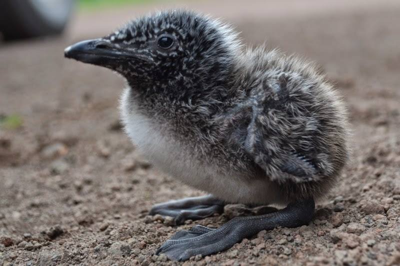 Murre Chick by Ryan deRegnier/USFWS